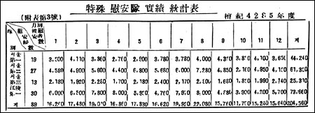 ROK Army Headquarters reported statistical results of Special Comfort Units in 1952, during Korean War.